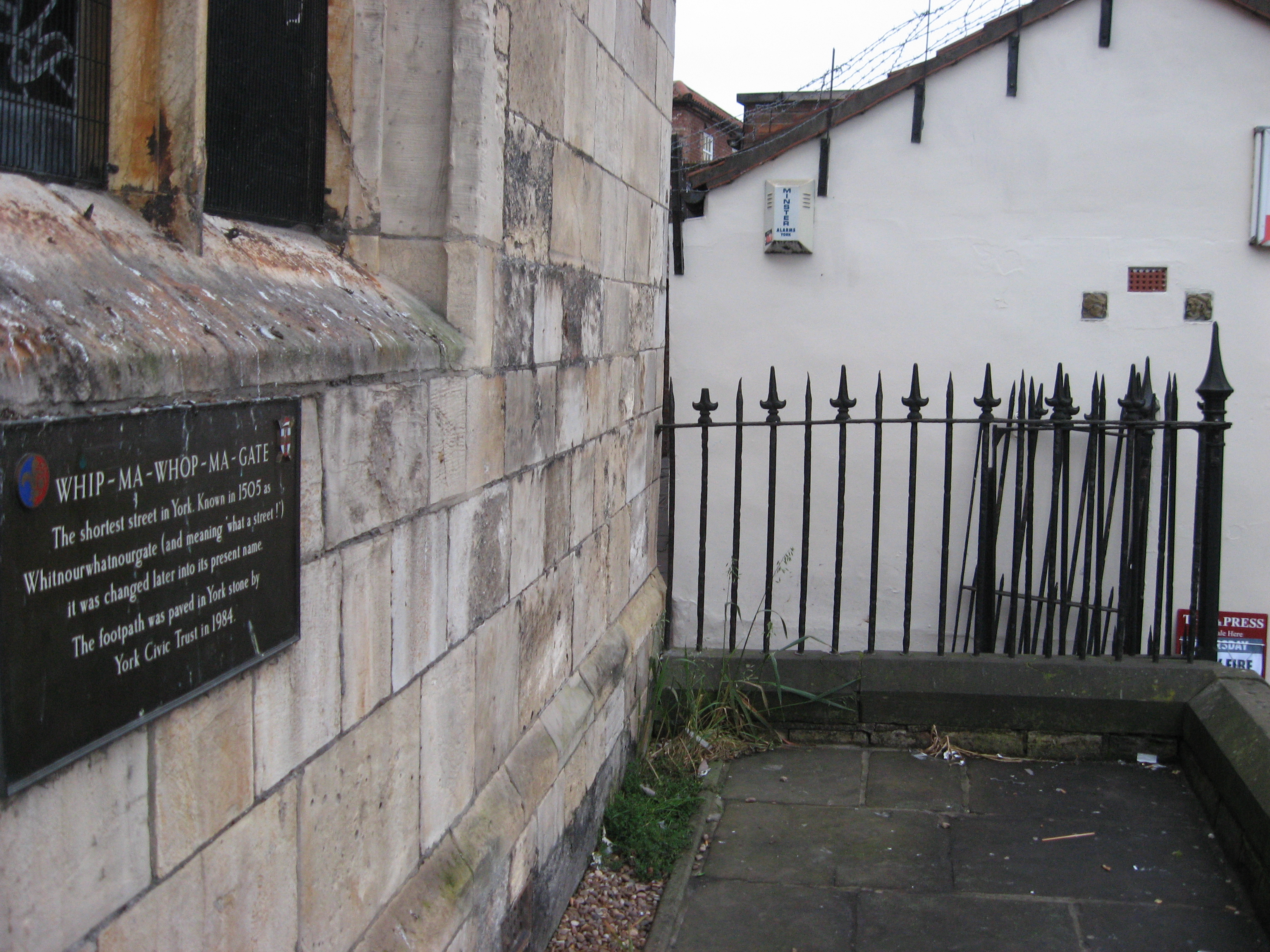 end of Whip-Ma-Whop-Ma Gate, York